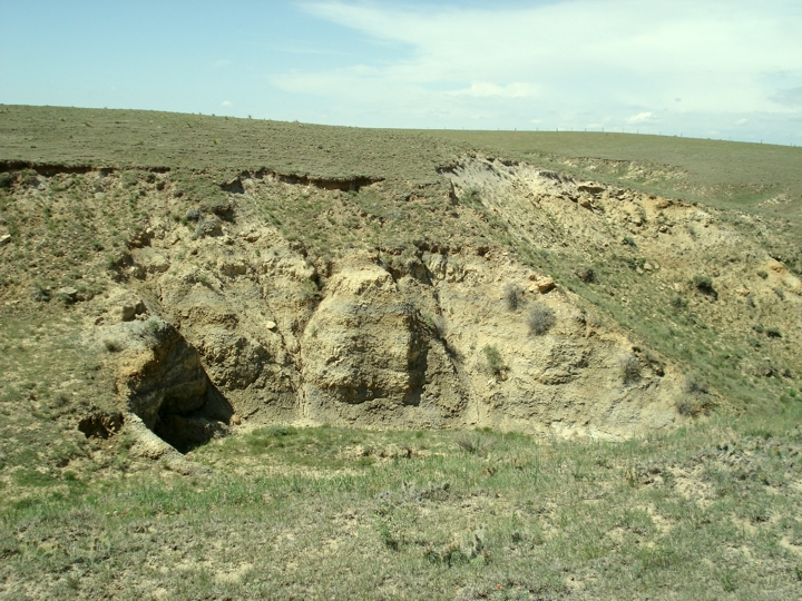 Exposure of the Laramie Formation in Weld County, Colorado. A Triceratops skull was found nearby.